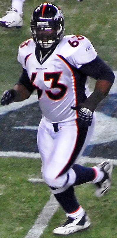 Denver Broncos defensive tackle Dewayne Robertson in action in the Monday Night Football game against the Patriots at Gillette Stadium on October 20, 2008